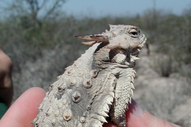 Phrynosoma sp. from Baja California.